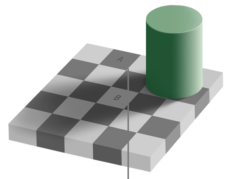 optical illusion (color A=B=line)